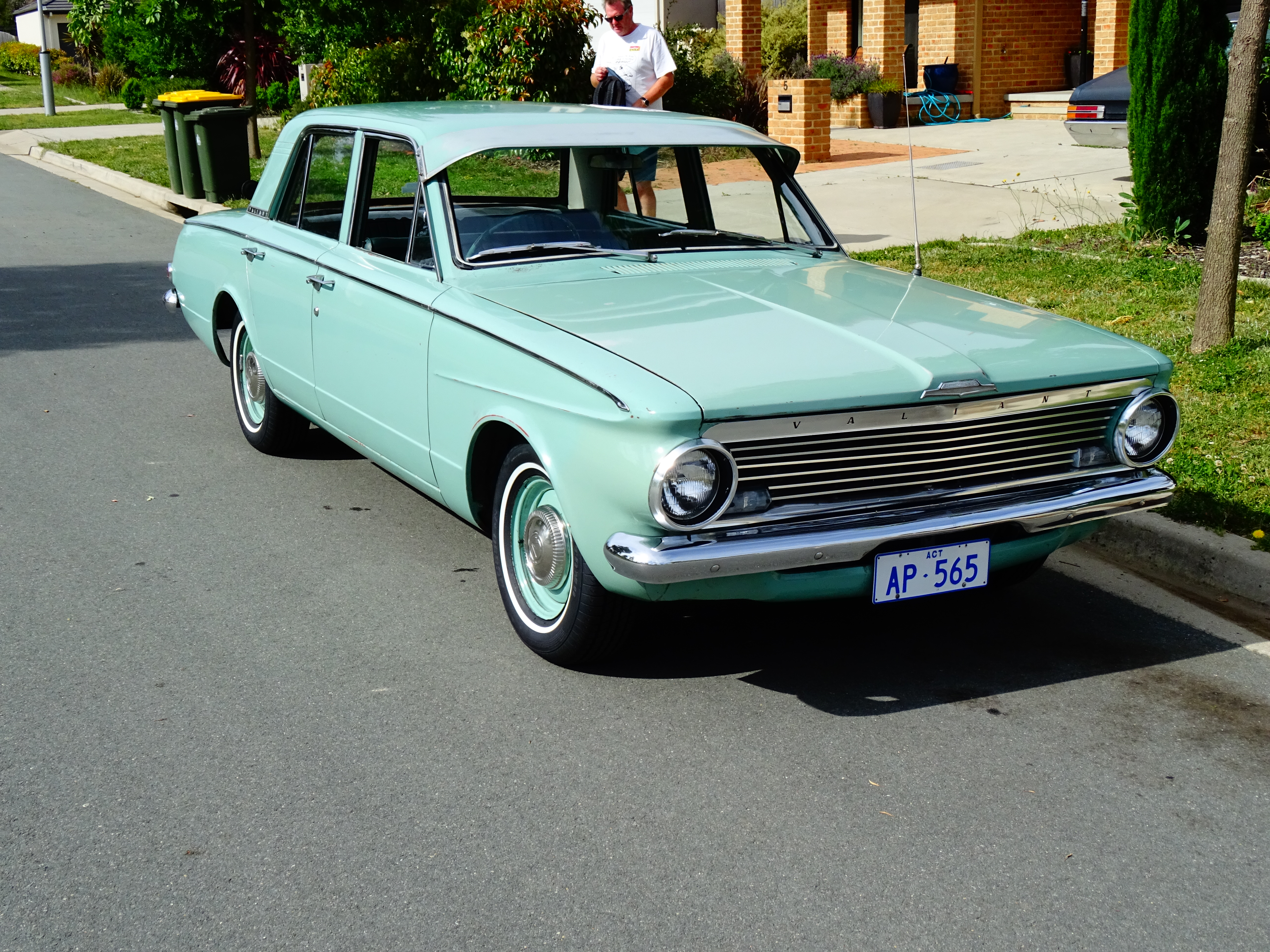 AP5 Valiant sedan